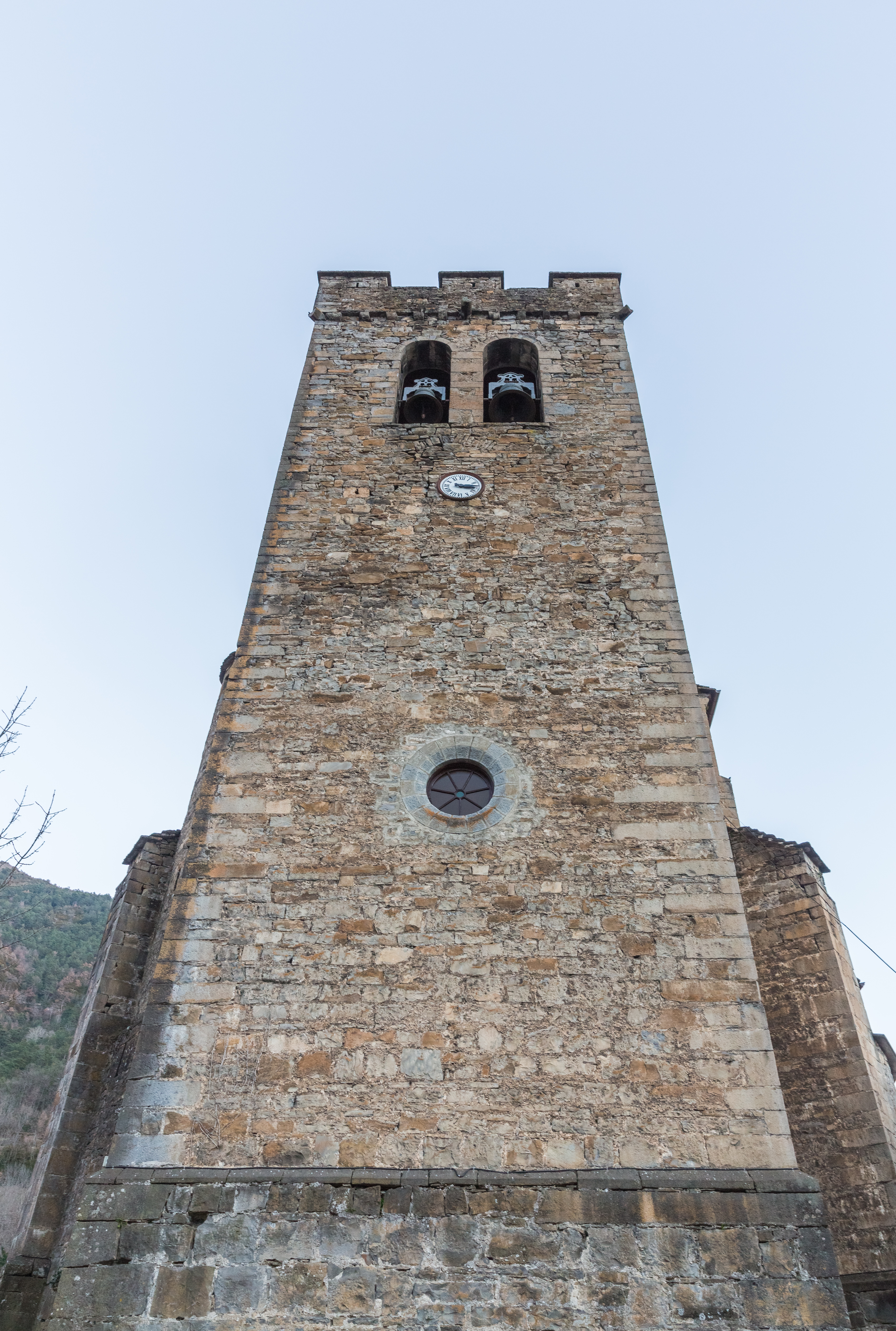 St Peter church, Broto, Huesca, Spain